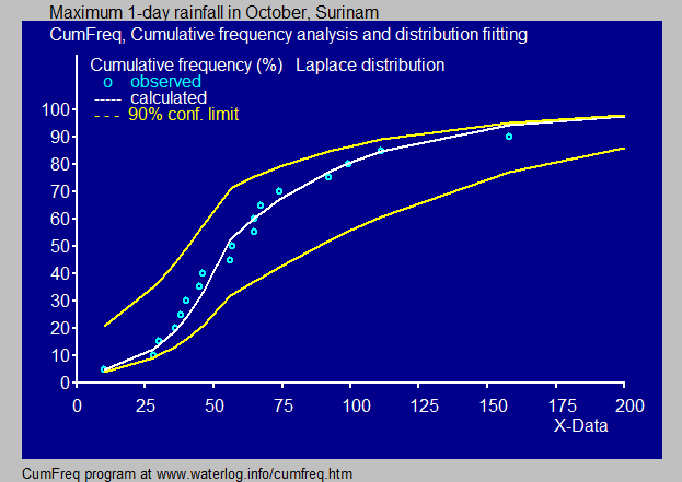 Laplace probability distribtion fitted to maximum one day rainfalls in October, Surinam